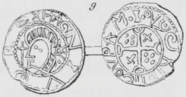 Coin from the reign of Magnus Barefoot, as identified in Skaare, Kolbjørn (1995). Norges mynthistorie. 2. Universitetsforlaget. p. 14.